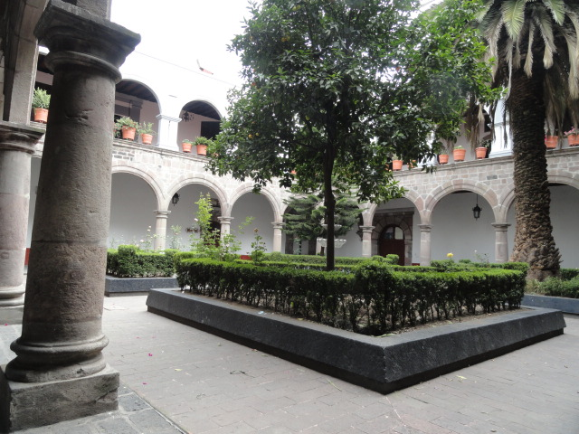 General view of the cloister, in which was the convent, actually is the Parish House.